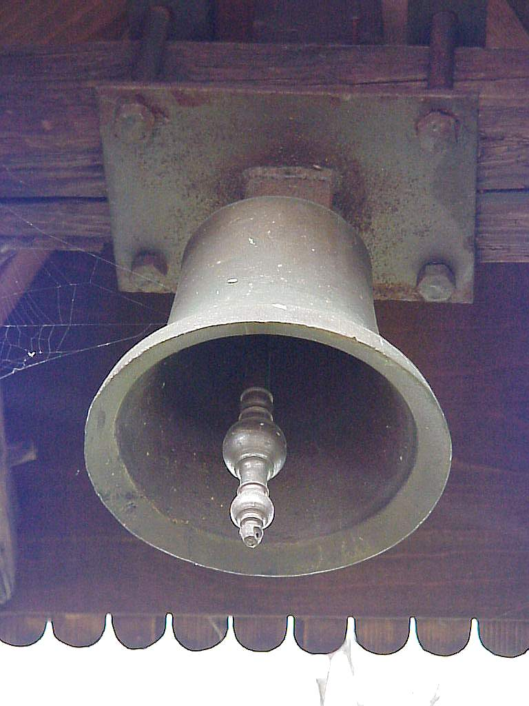 bell in Stadice